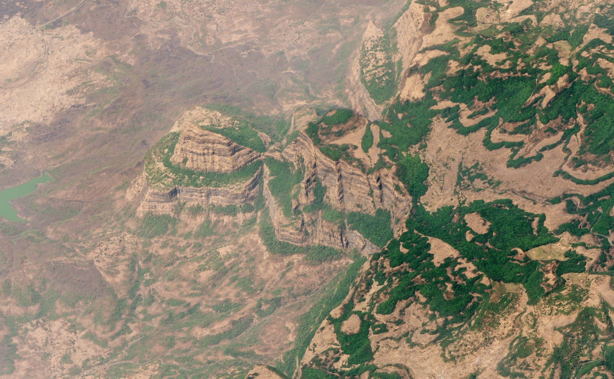 SkySat satellite image of Deccan Traps, Maharashtra